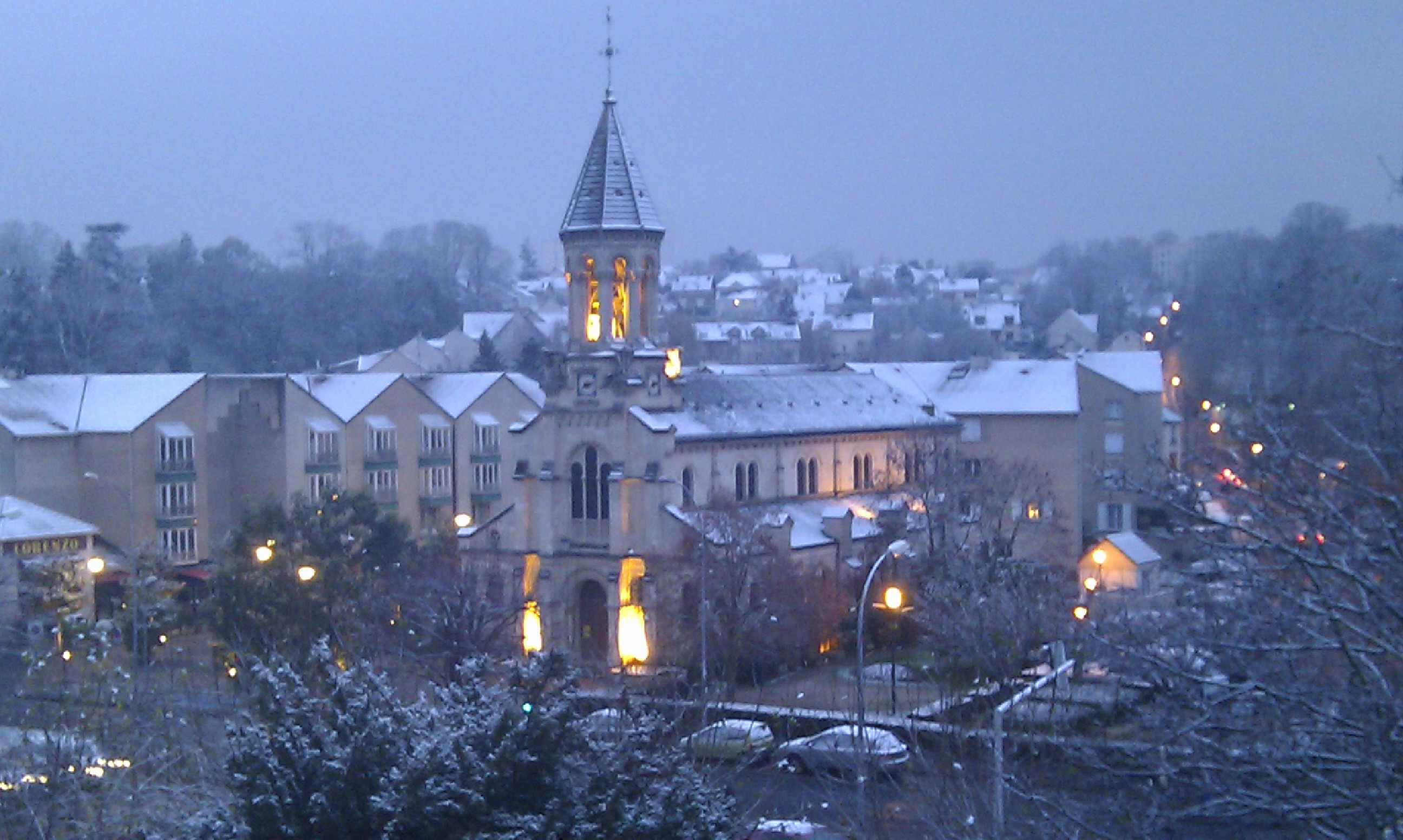 Church of Ris-Orangis (France) under the snow.